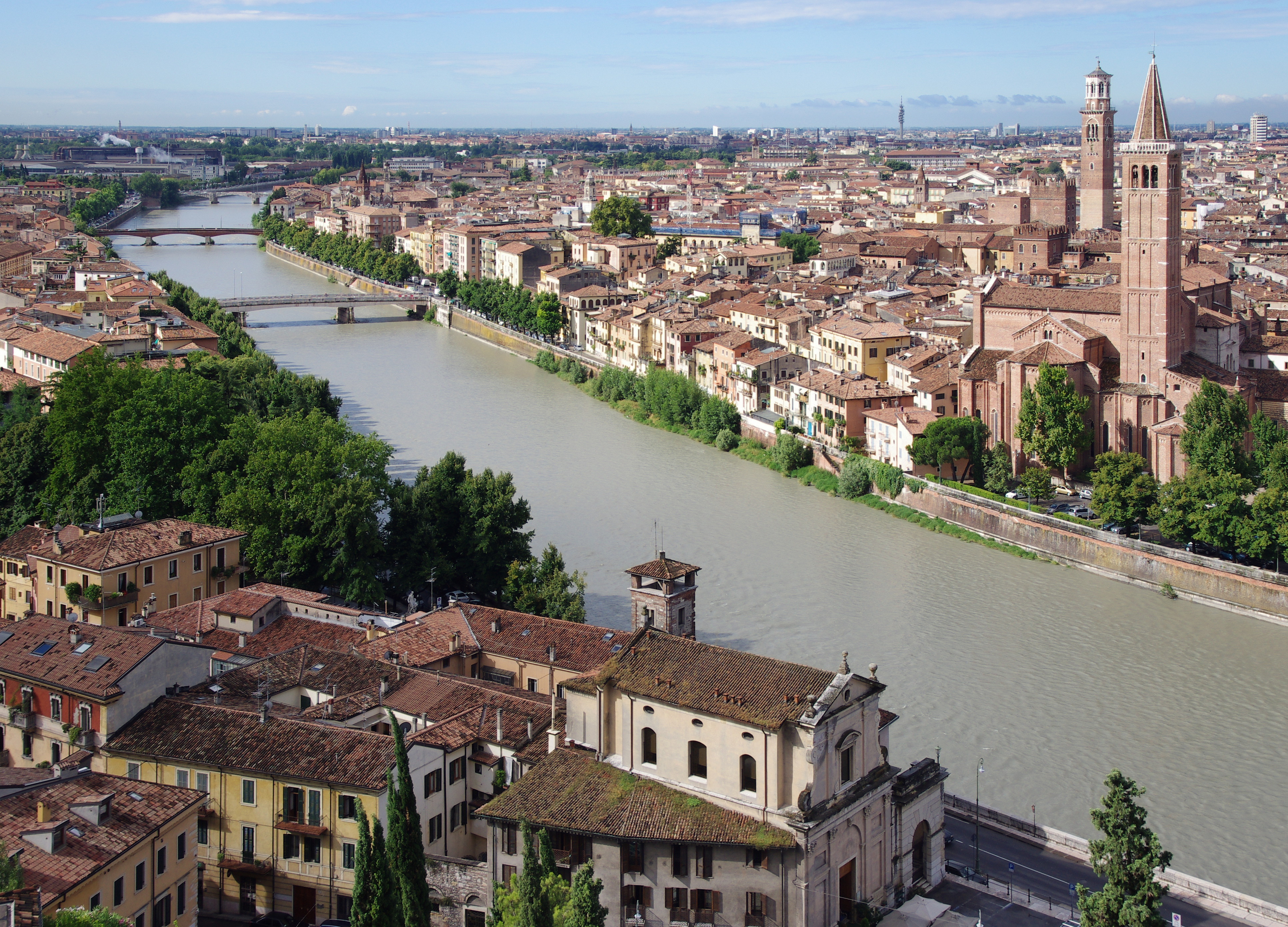 Verona, view from Castel San Pietro